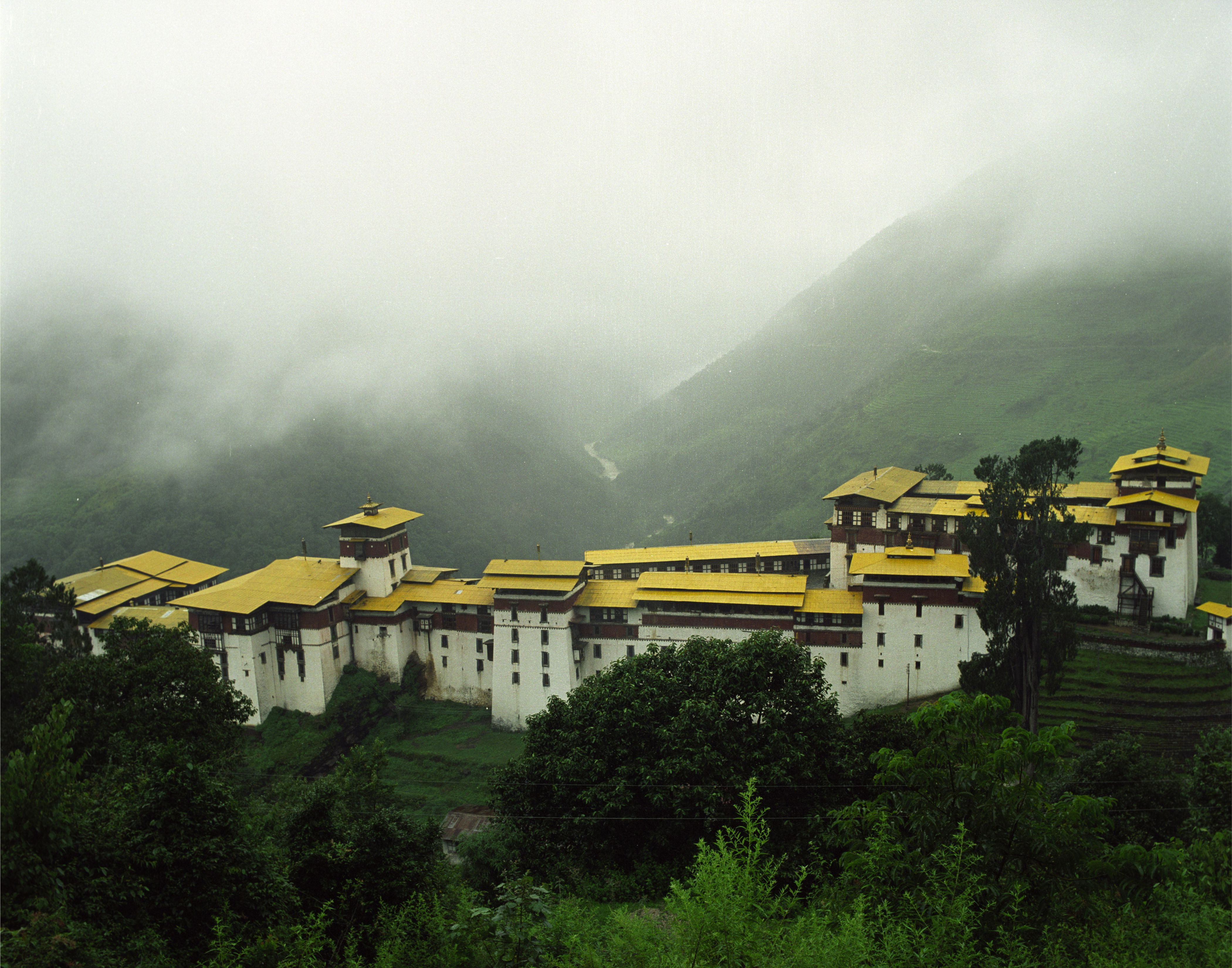 Chökhor Raptentse Dzong at Trongsa, Bhutan in the clouds